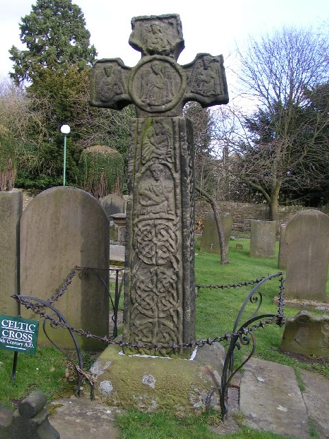 Celtic Cross, Eyam churchyard. "In the churchyard a Saxon cross, notable for the survival of the head, coarse vine scrolls and interlace on the shaft, of which unfortunately the top two feet or so are missing. The date is probably early C9" (Pevsner, The Buildings of England: Derbyshire)